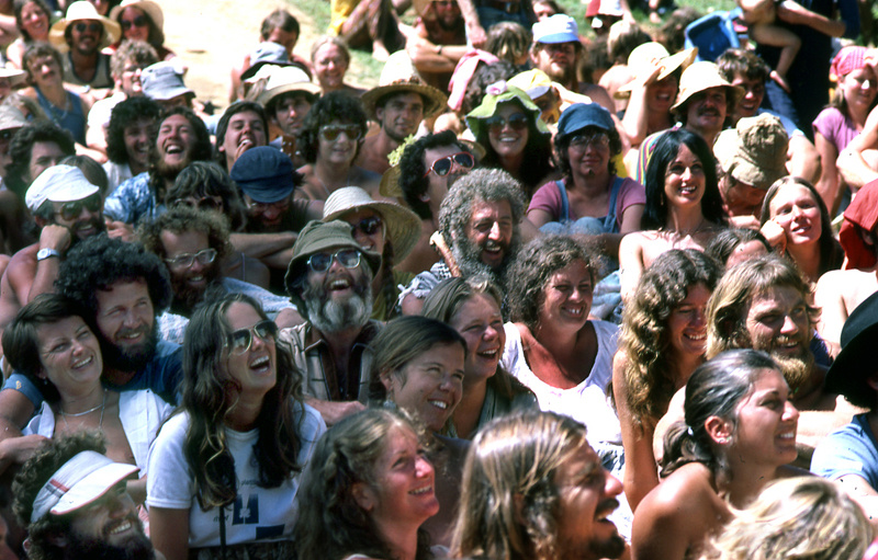 Terms of Use: 1/ All users of this image are required to attribute this work to "Nambassa Trust and Peter Terry" and the URL: " " is to accompany all use. 2/ Attribution. You must attribute the work in the manner specified by the author or licensor. 3/ For any reuse or distribution, you must make clear to others the license terms of this work. Statement by Nambassa Trust and Peter Terry Mombas 13:33, 25 August 2006 (UTC)